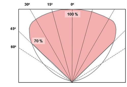 Field of View, Flame detection